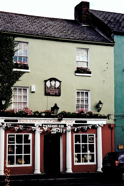 Athlone - Sean's Pub - Oldest in Ireland